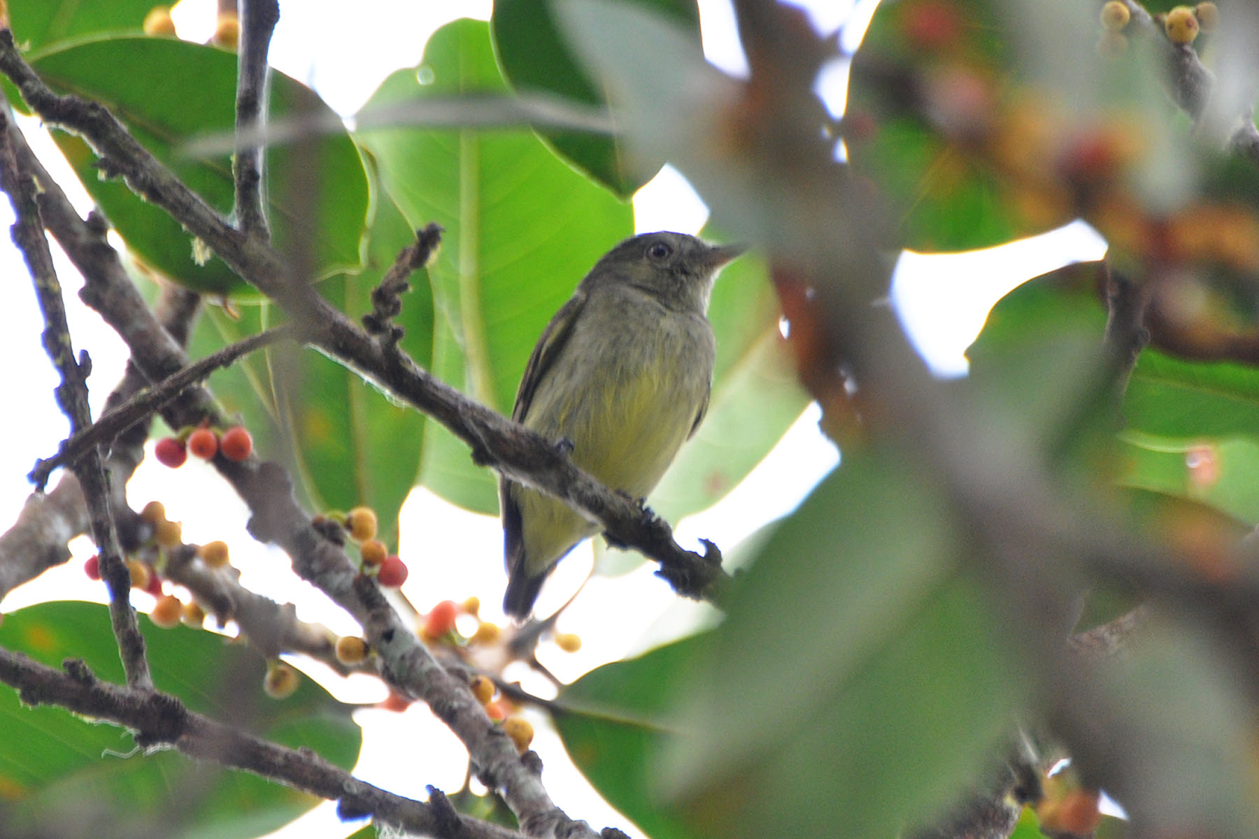 Dwarf Tyrant-Manakin (Tyranneutes stolzmanni), Sacha Lodge, Ecuador